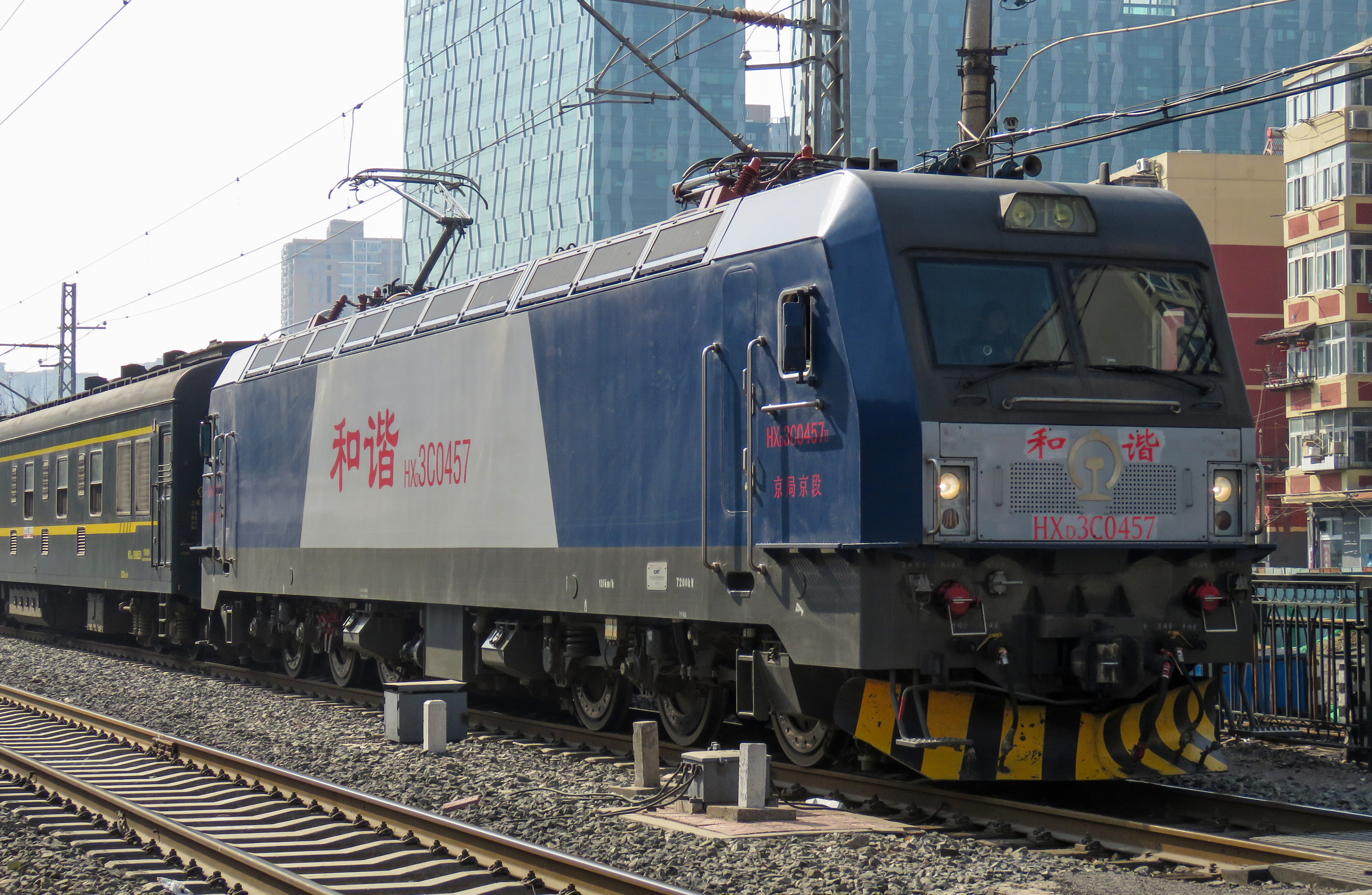 K1072 from Anqing. A different font... By the way, 0457 is the area code of Daxing'anling Prefecture.